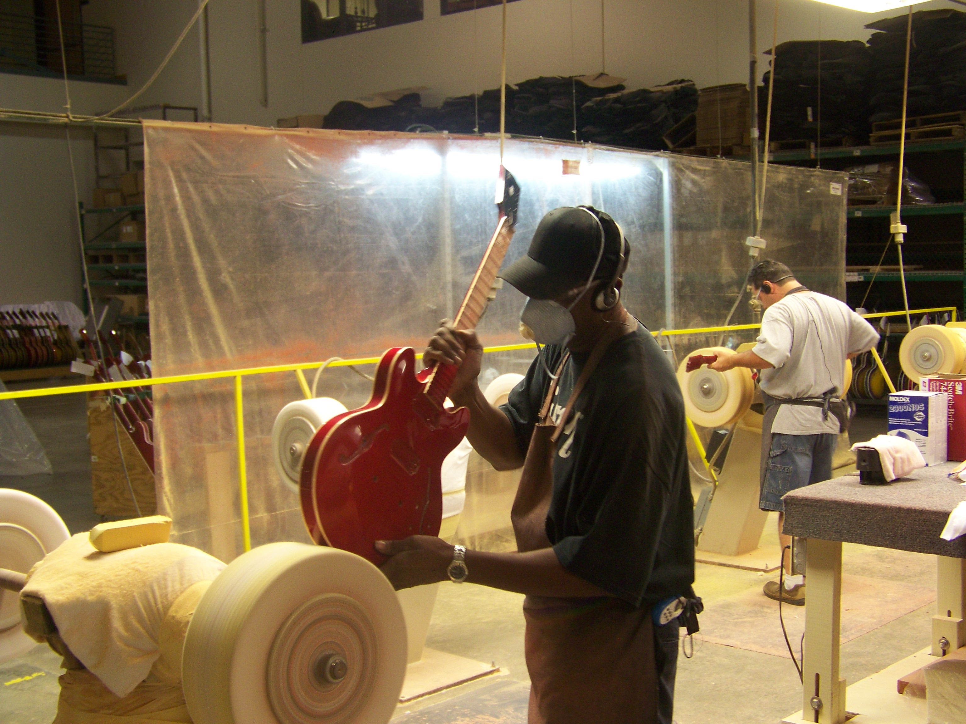 GMFT7-5 buffing